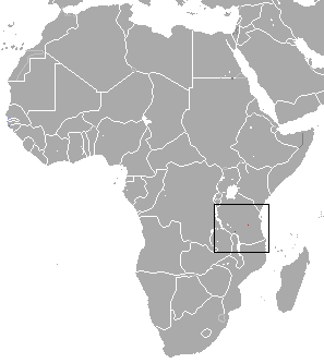 Kipunji (Rungwecebus kipunji) range